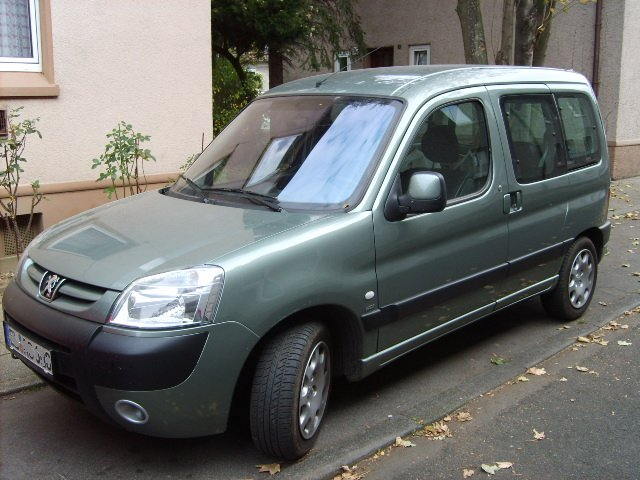 Picture of the Peugeot Partner.